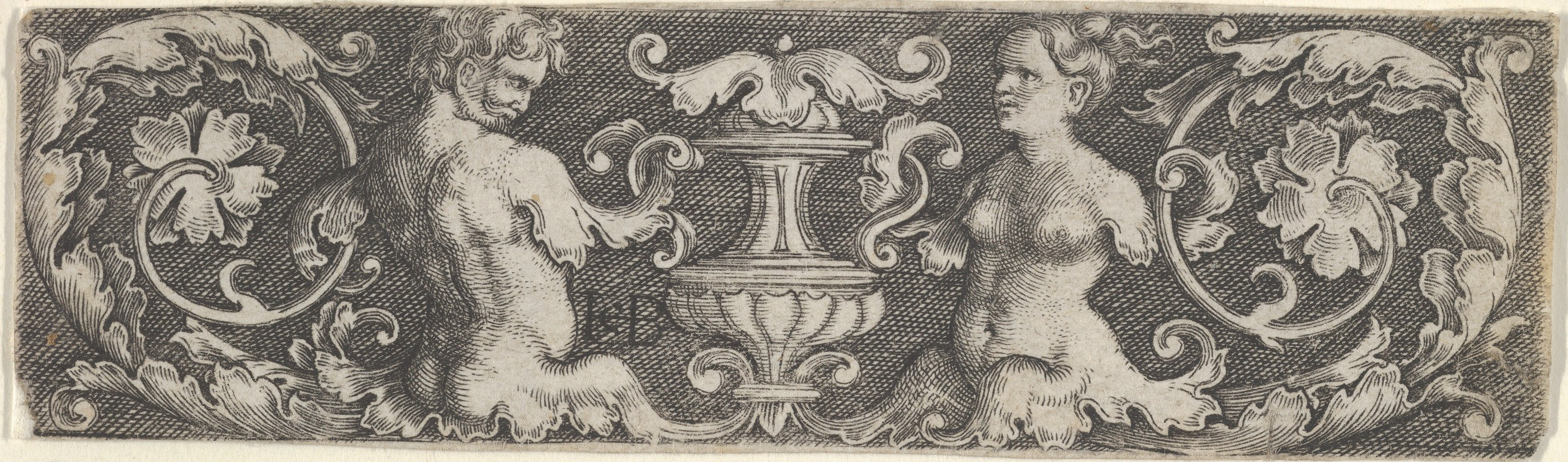 print ornament & architecture; Prints/Ornament & Architecture